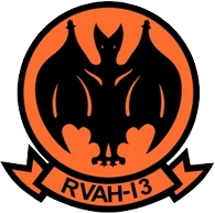 Insignia of the U.S. Navy Reconnaissance Heavy Attack Squadron 13 (RVAH-13).